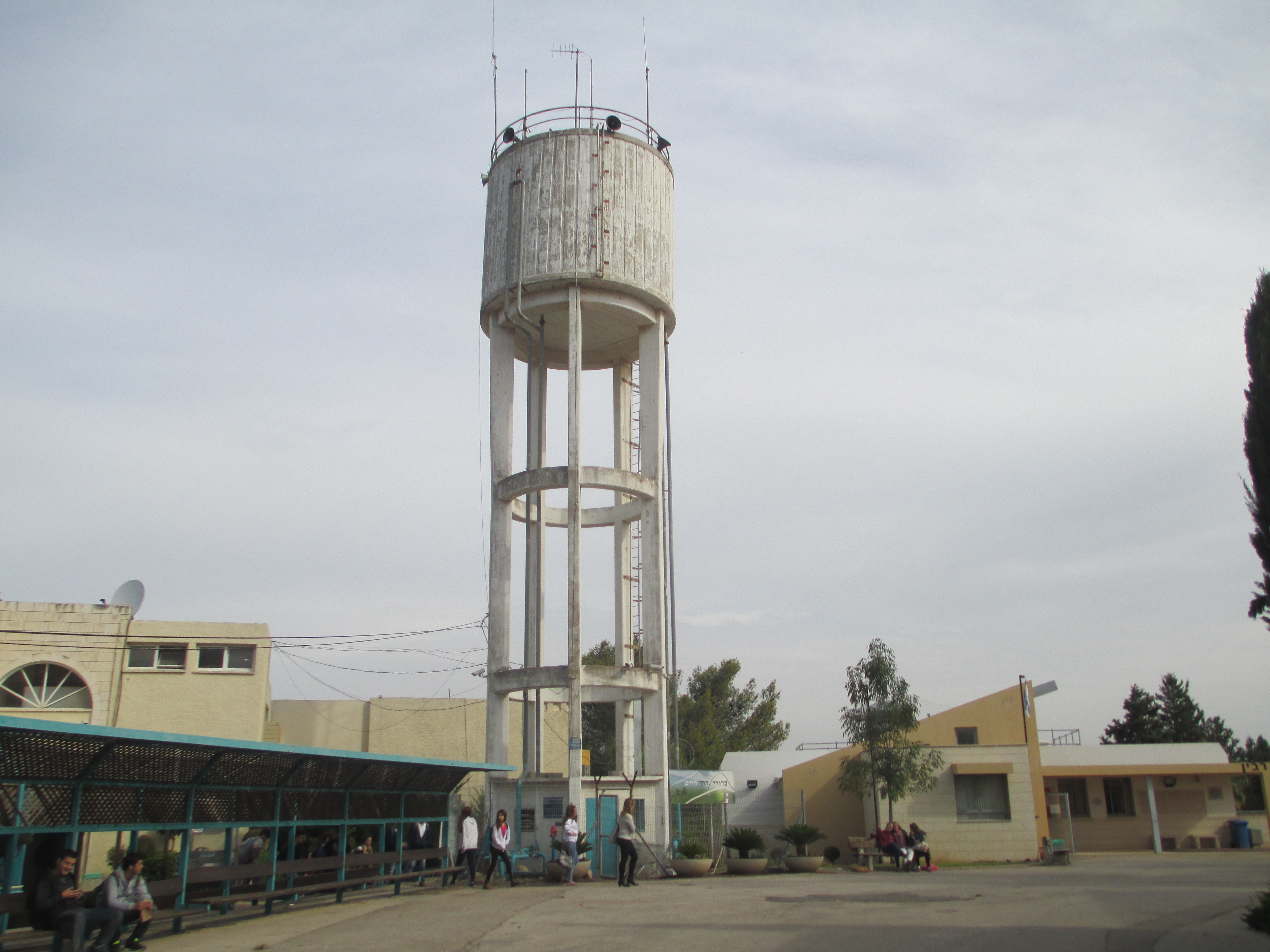 Kadoorie Agricultural School